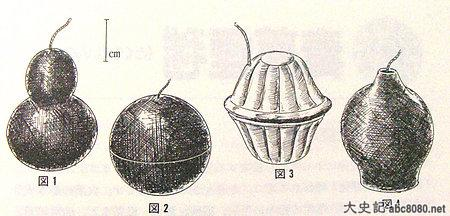 Arms of Ming, hand grenadess